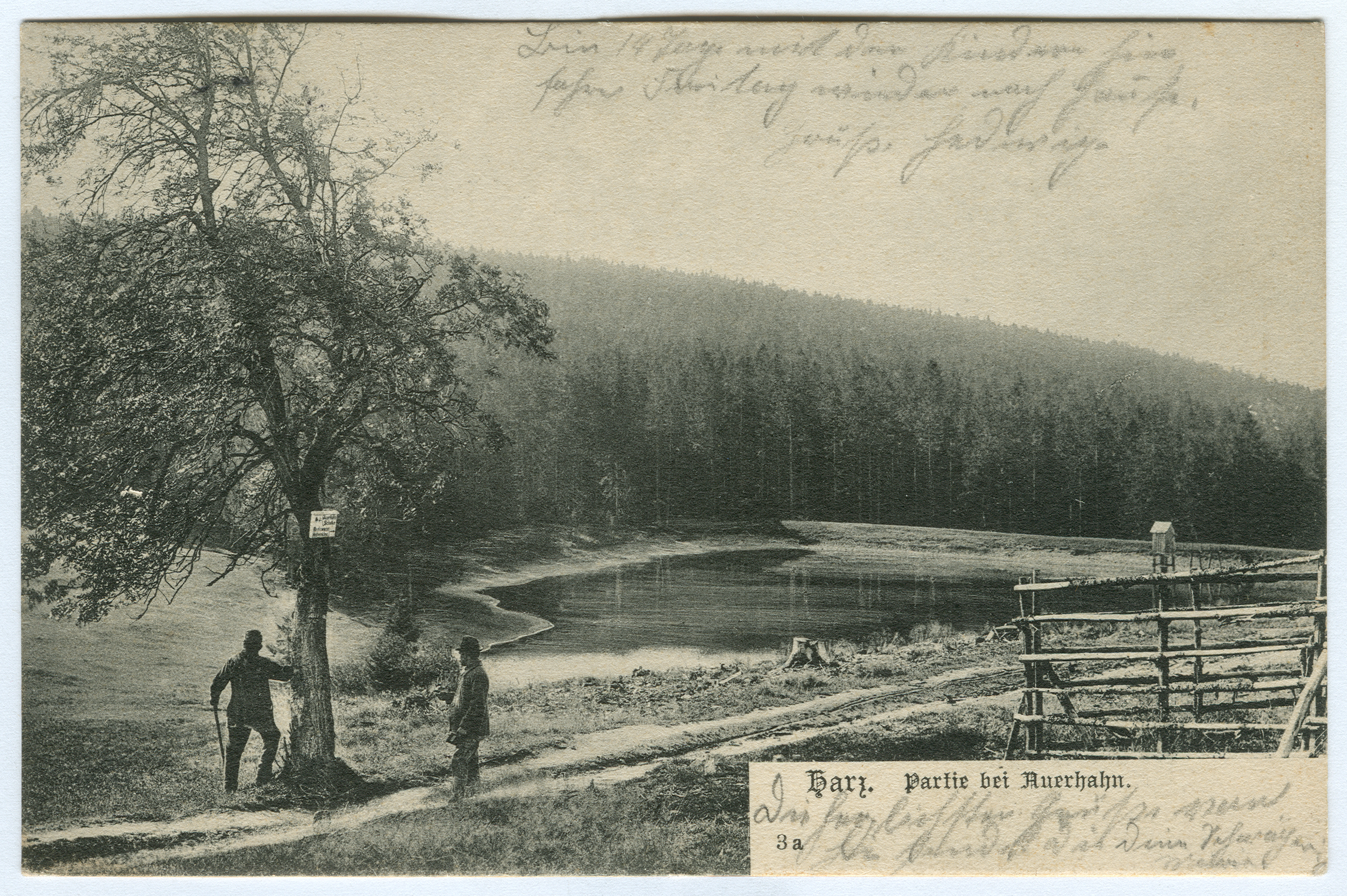 Postcard